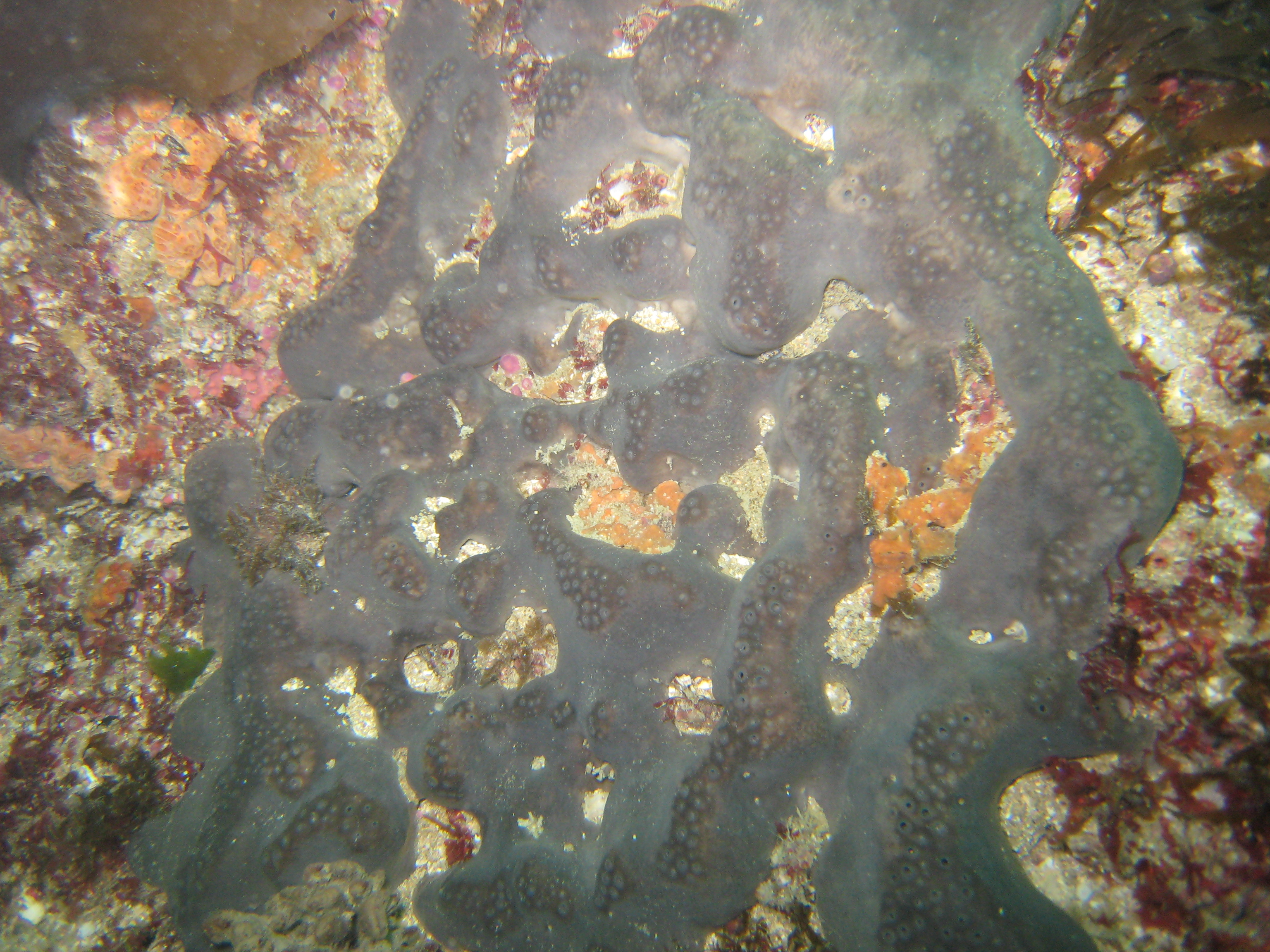 Pachymatisma johnstonia in Saint-Quay-Portrieux